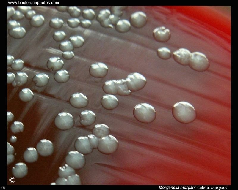 Morganella morganii ssp. morganii on blood agar. Cultivation 24 hours, 37°C.